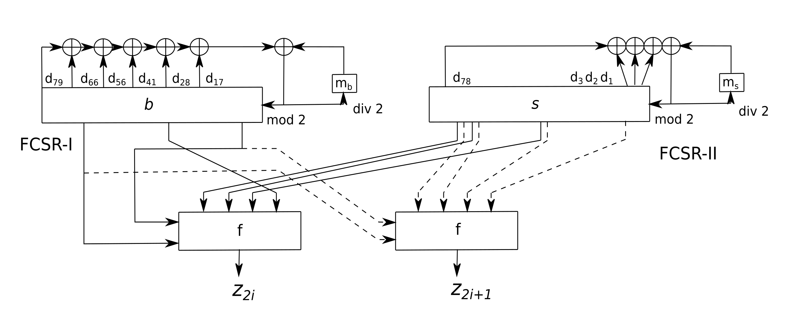 BEAN cipher scheme